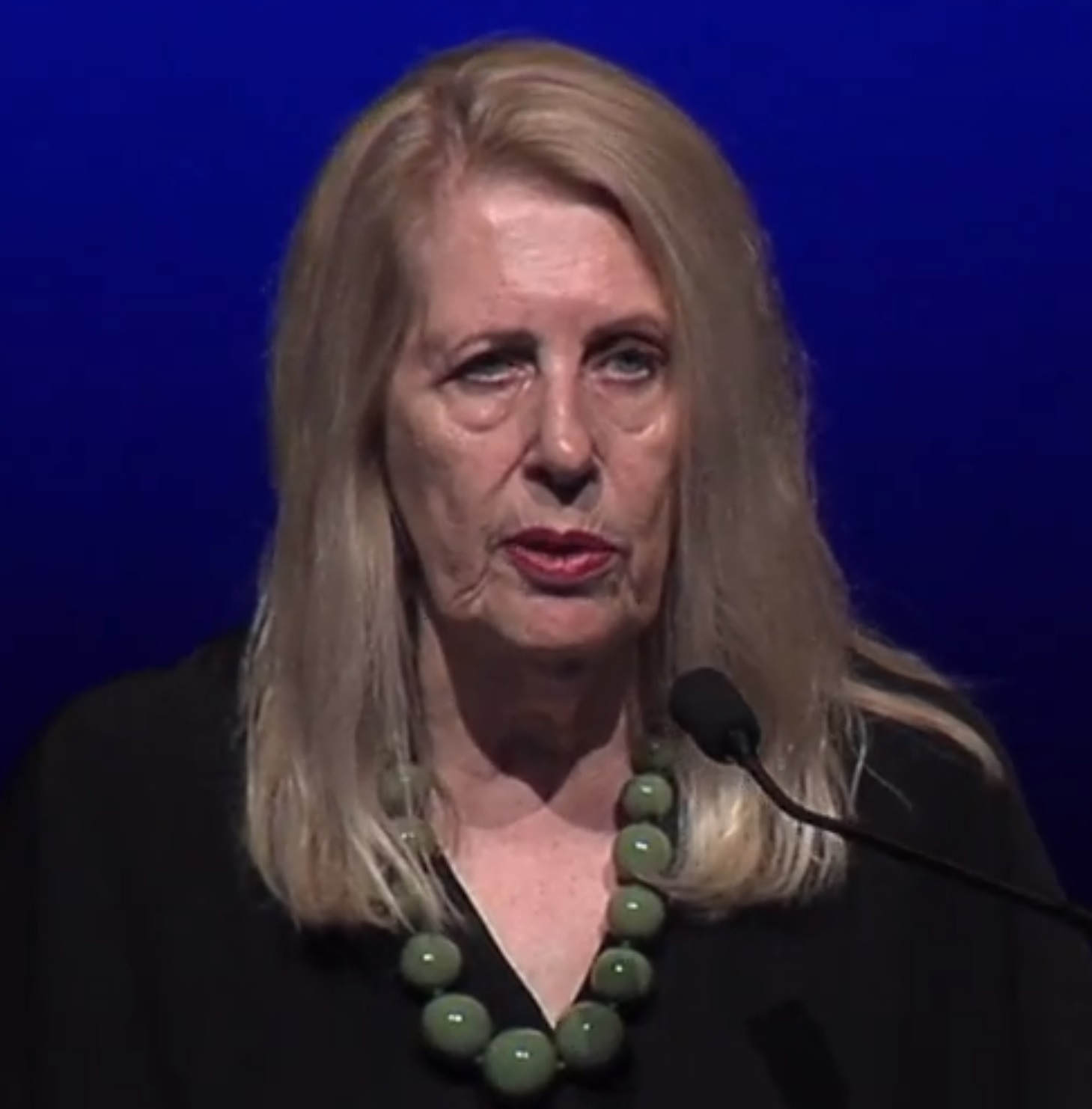 The Griffith Lecture 2018 presented by Dr Anne Summers AO on Tuesday 23 October at the Queensland Conservatorium South Bank. This event opened Griffith University's 2018 Integrity 20 conference. Dr Summers has had an extraordinary career as a journalist, author, policy maker, political advisor, bureaucrat, board member, editor, publisher, and political activist.